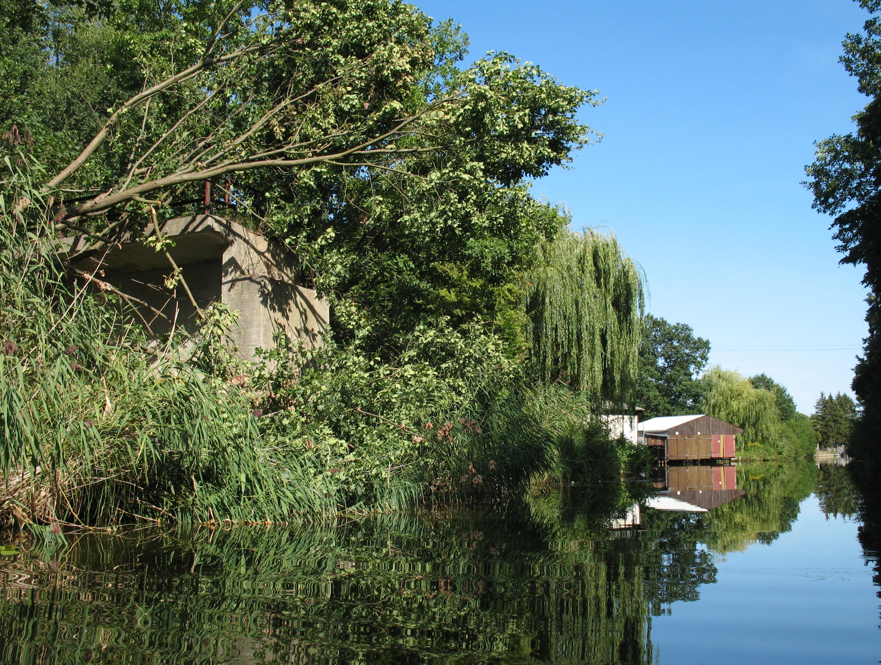 Wentow channel in Zehdenick in Brandenburg, Germany